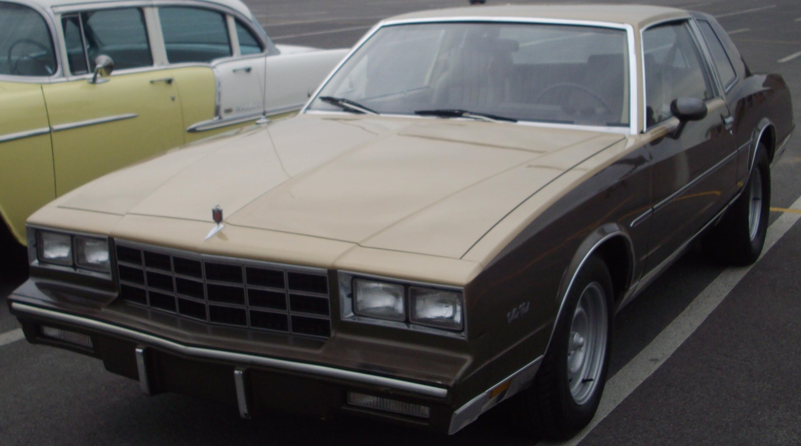 1981 Chevrolet Monte Carlo photographed in Laval, Quebec, Canada at Les chauds vendredis.